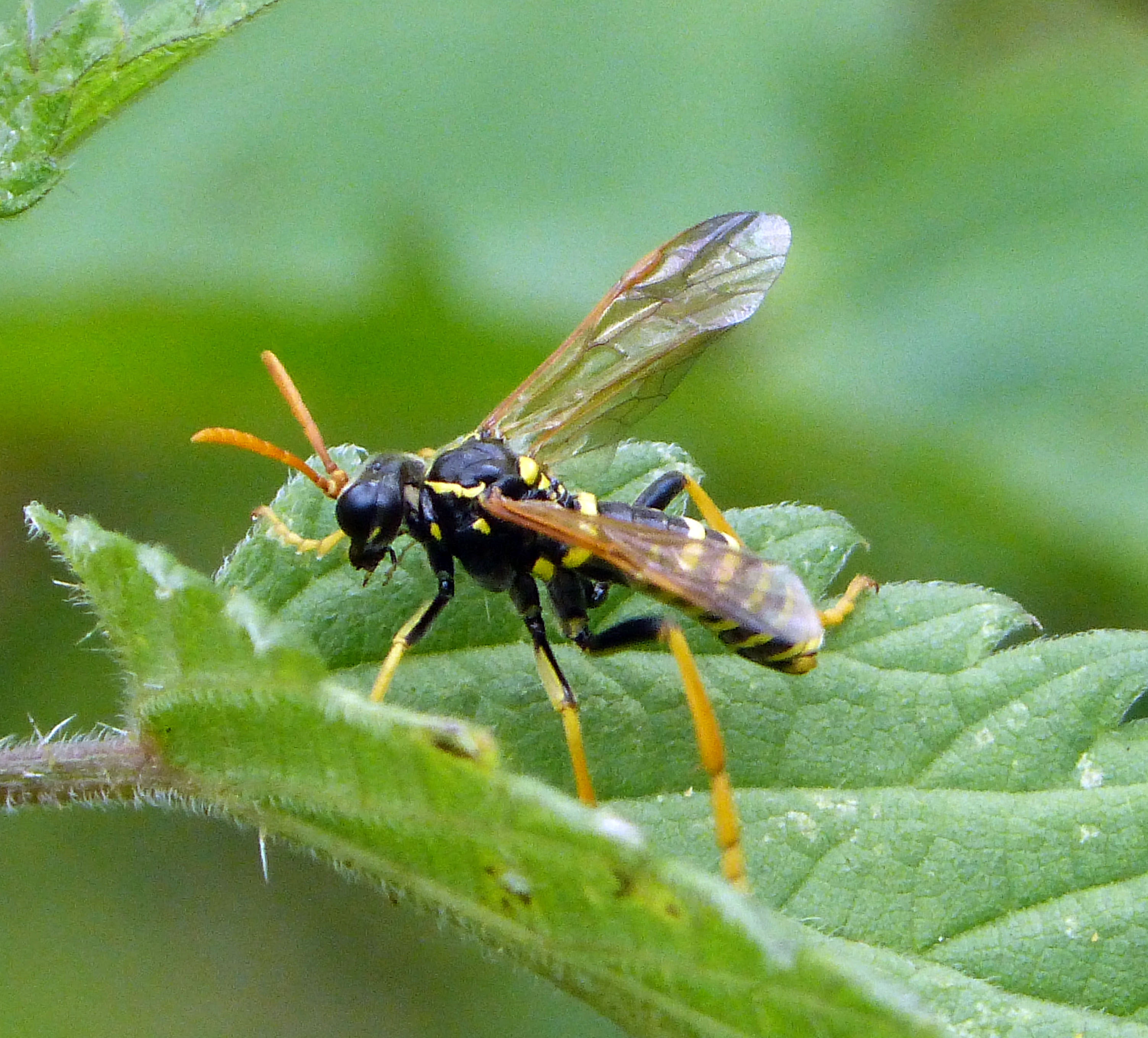 Symphyta, Tenthredo scrophulariae, Figwort Sawfly